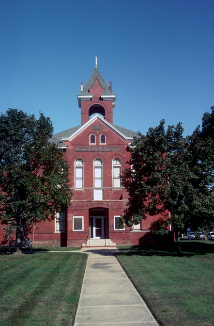 Accomack County Courthouse (Built 1899), Accomac ( Accomack County, Virginia) This image or file is a work of a United States Department of Agriculture employee, taken or made as part of that person's official duties. As a work of the U.S. federal government, the image is in the public domain. Object location37° 43′ 11″ N, 75° 40′ 11″ W